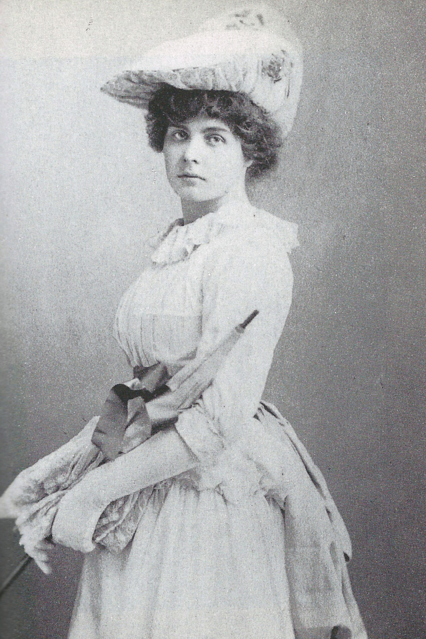 Photograph of Constance Wilde c. 1887